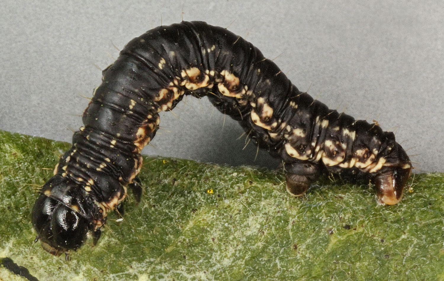 Rheumaptera hastata, Argent and Sable, North Wales, August 2012 (1)